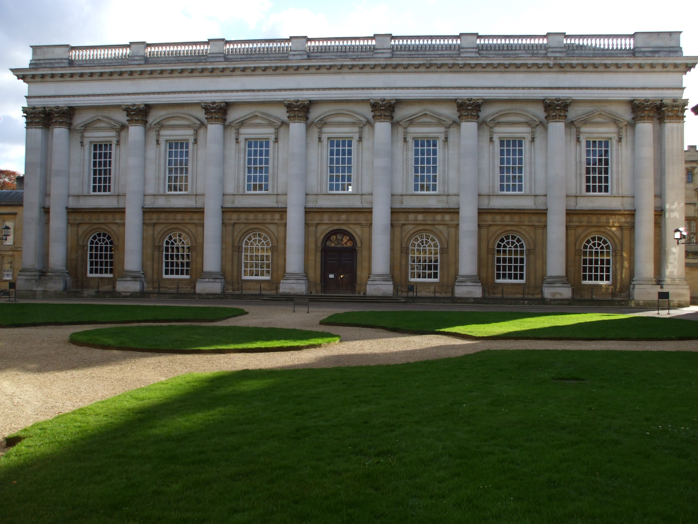 Christ Church Library from Peckwater Quad.